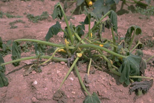 Typical Phytophthora blight symptoms on a pumpkin plant.